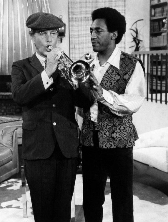 Photo of Dick Van Dyke and Bill Cosby from a Cosby NBC television special.